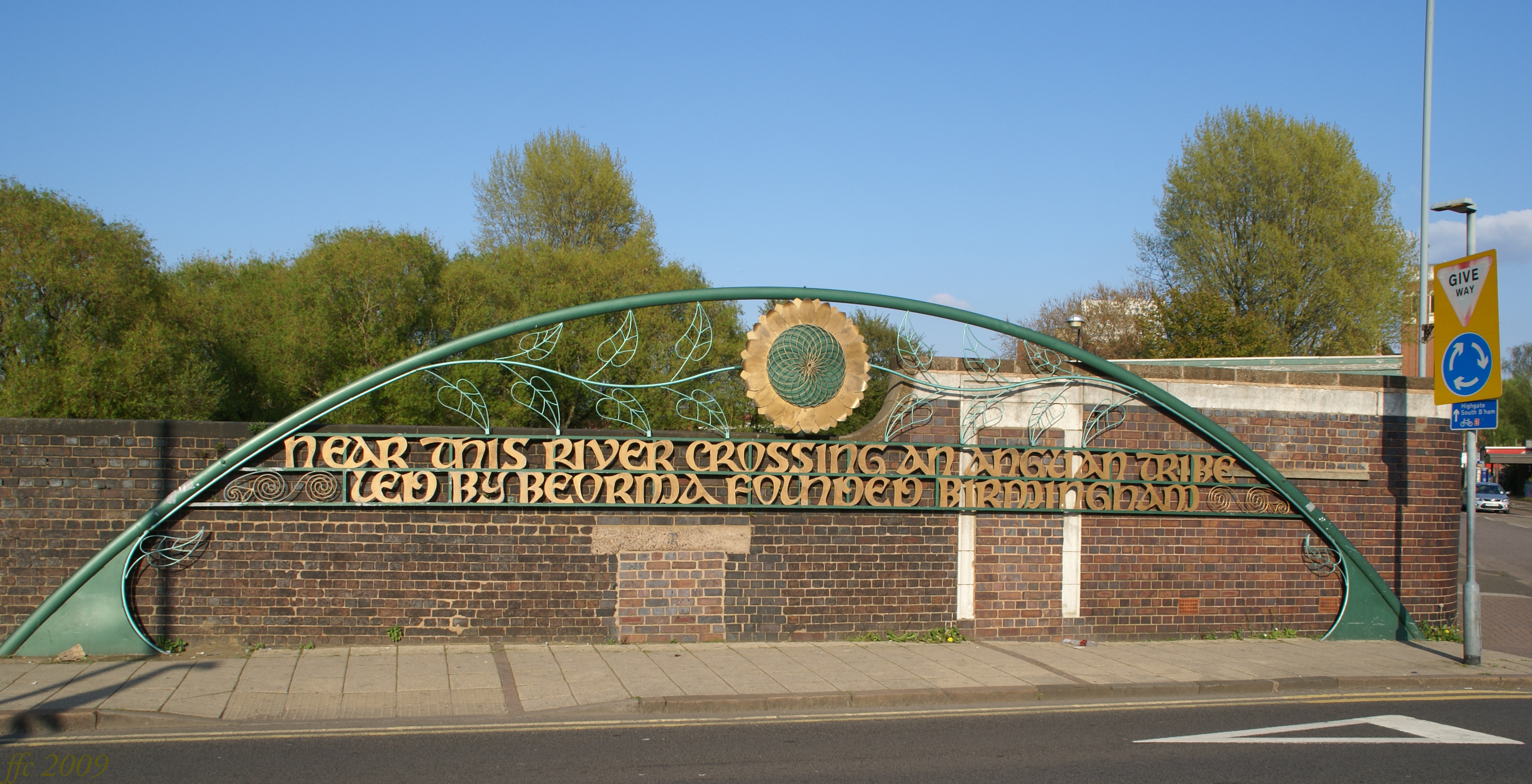 Birmingham (United Kingdom): The Bridge over the Rea at Gooch Street